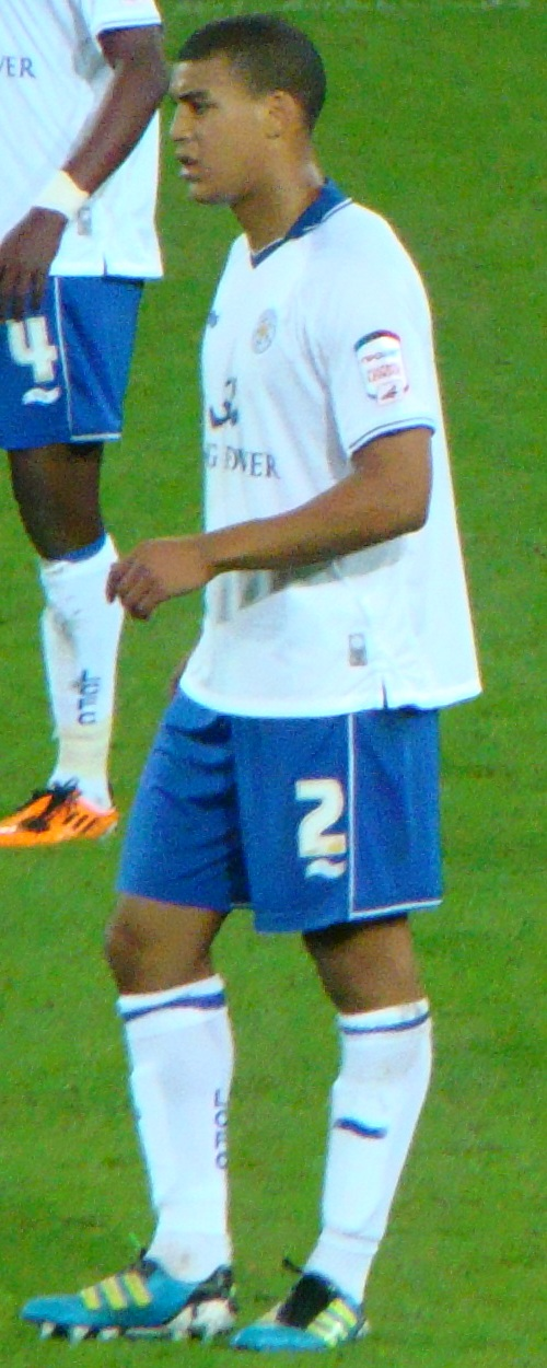 21/09/11 Cardiff V Leicester, Football League Cup, Cardiff City Stadium, Cardiff, Wales [Image cropped from original at Flickr]